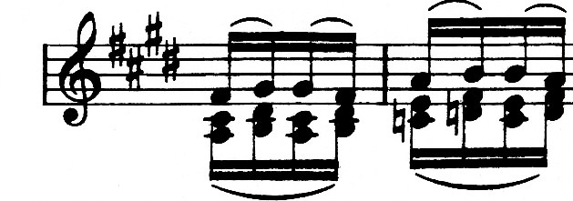 Bar 5 of Chopin Etude OP.10 No.3 in "Debussy manner" by Alfredo Casella